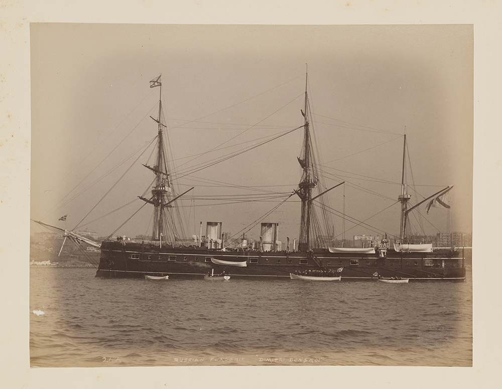 Title: Russian flagship 'Dimitri Donskoi' Creator: Loeffler, 1864-1946 Date: April 27, 1893 Part Of: Columbian Naval Parade Place: New York Physical Description: 1 photographic print: albumen, part of 1 volume (48 albumen prints); 17 x 22 cm on 28 x 34 cm mount File: ag1982_0031_25_opt.jpg Rights: Please cite DeGolyer Library, Southern Methodist University when using this file. A high-resolution version of this file may be obtained for a fee. For details see the web page. For other information, . For more information, View the full series: naval parade/field/all/mode/all/conn/and/cosuppress/ View North America: Photographs, Manuscripts, and Imprints